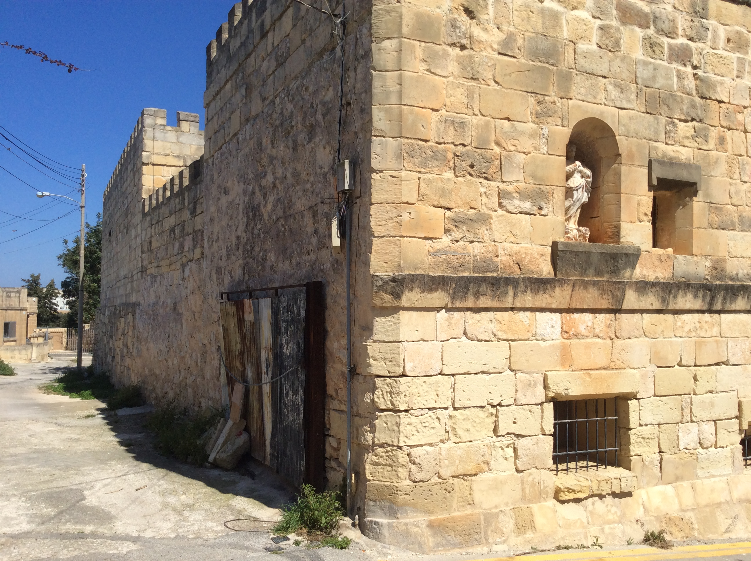 Hunting lodge build during the magistracy of Perellos and Castello dei Baroni